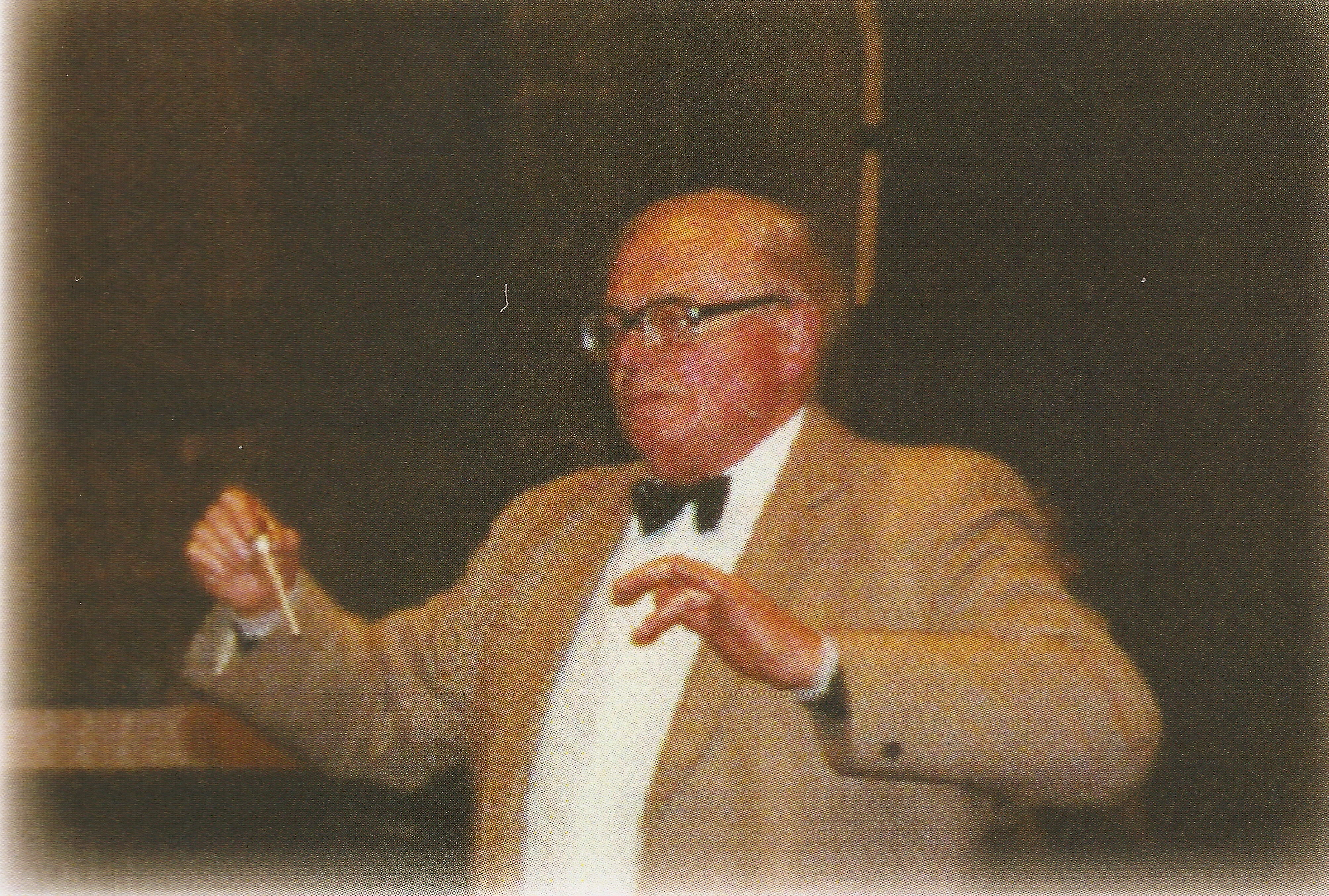 Wallace Ross Conducting Scan